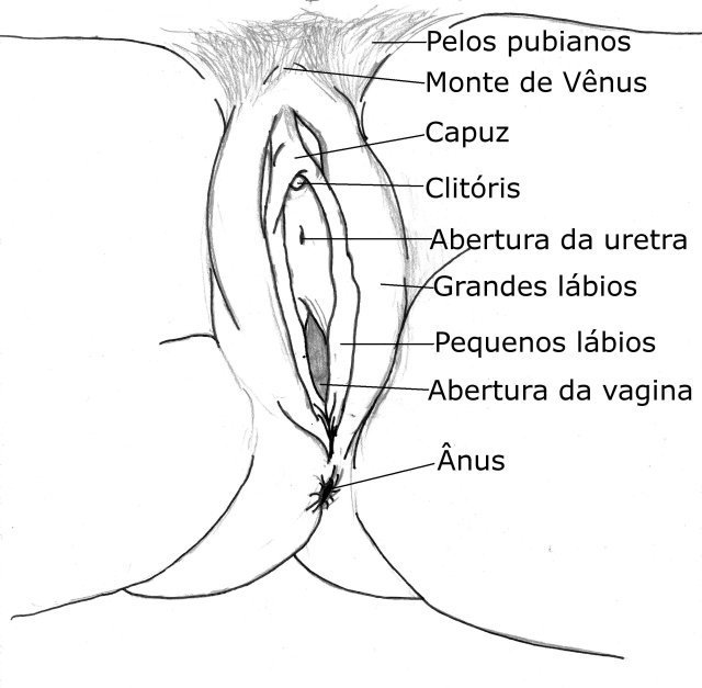 Author: Daniel Duclos (Daniduc) Description: schematic drawing of the vulva with captions in Portuguese